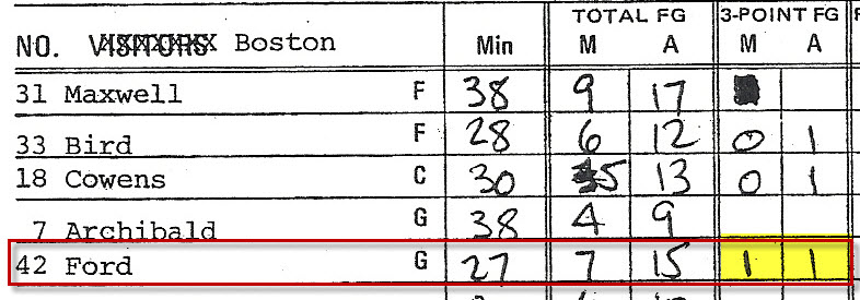 The official scorer's report for an NBA game between the Houston Rockets and the Boston Celtics, showing the first three-point field goal in NBA history by Celtics' shooting guard Chris Ford.